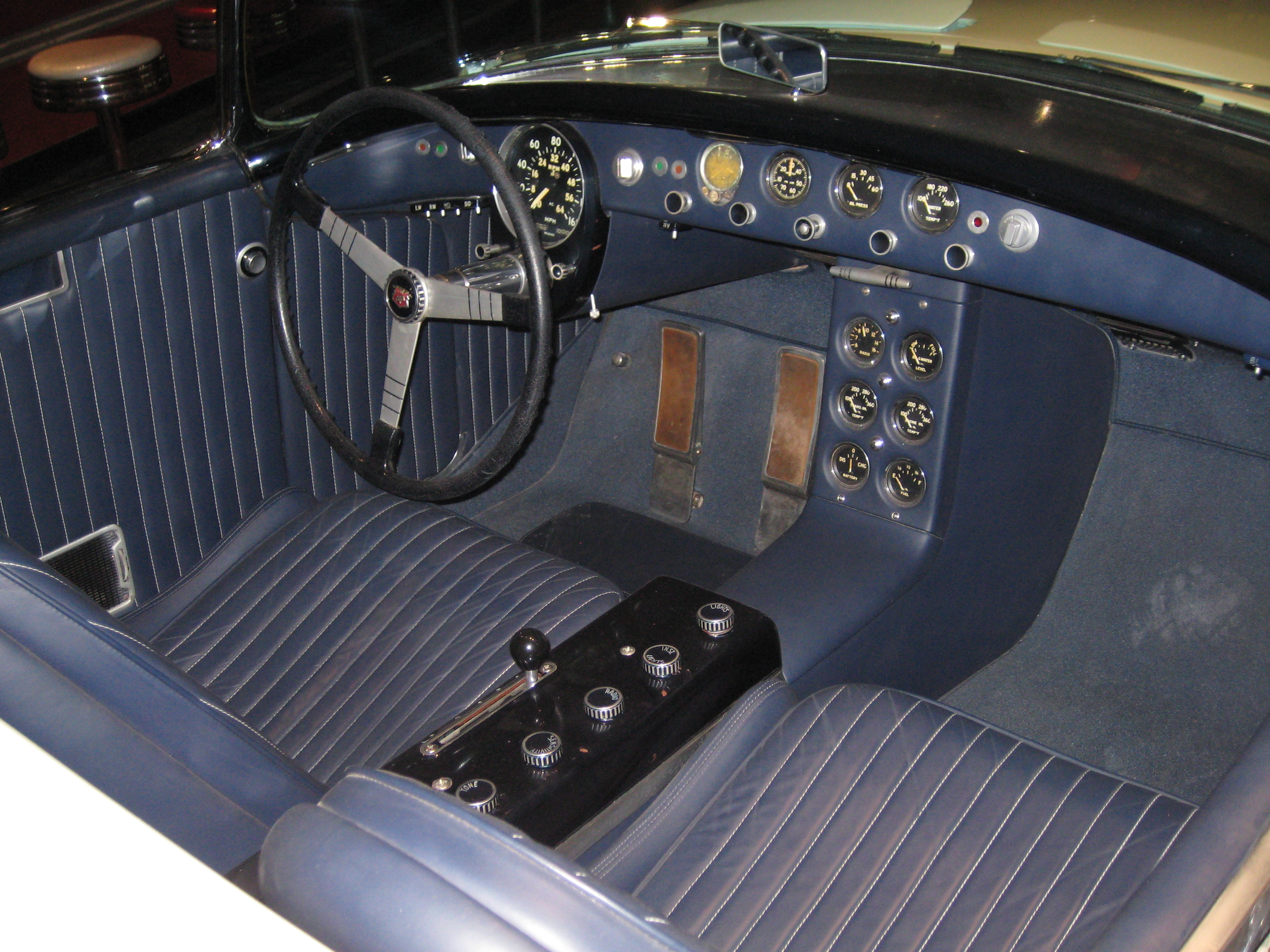 Buick XP 300 concept from 1951